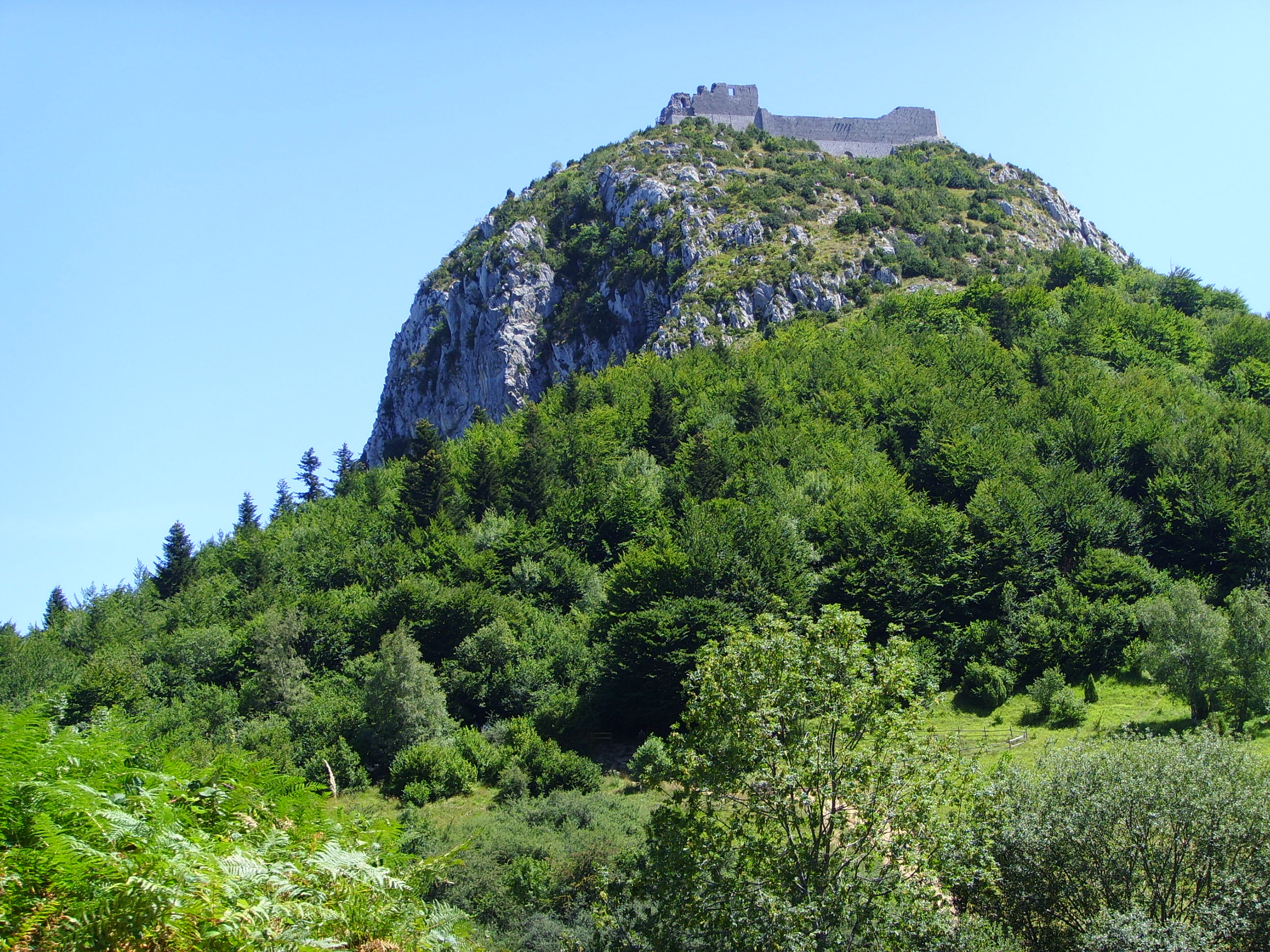 Montségur this photo was taken by User:Gerbil from de.Wikipedia in August 2006